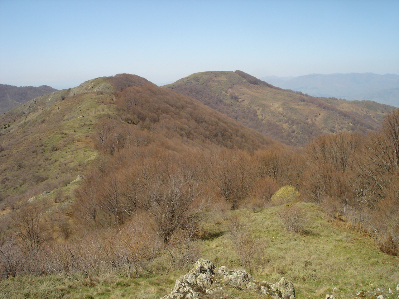 Sari Tash (in front) and Alti Tekne (in the back), peaks on Plackovica mountain Macedonia